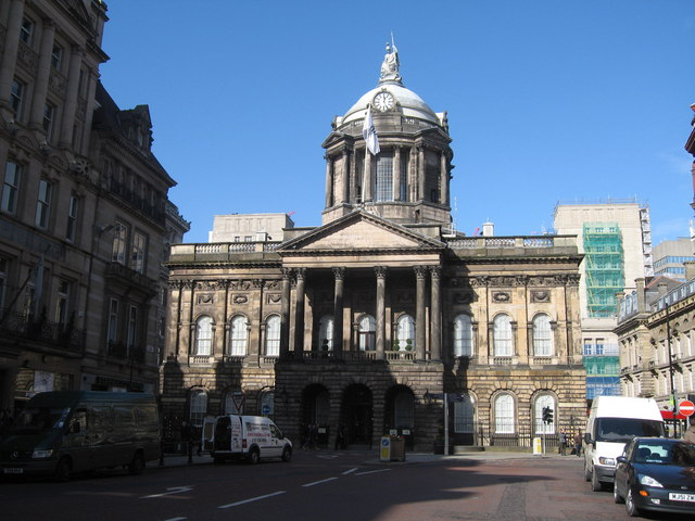 Liverpool Town Hall Liverpool Town Hall from Castle Street. The present Town Hall is the third to have been built on or near this site. The first was built in 1515, the second in 1673 and the present building, one of the oldest in Liverpool, in 1754 based on a design by John Wood of Bath. It was gutted by fire in 1794 but was restored. On top of the dome sits a 10ft high statue of Minerva, the goddess of wisdom, covered in gold leaf, designed by Felix Rossi, who was sculptor to George IV.